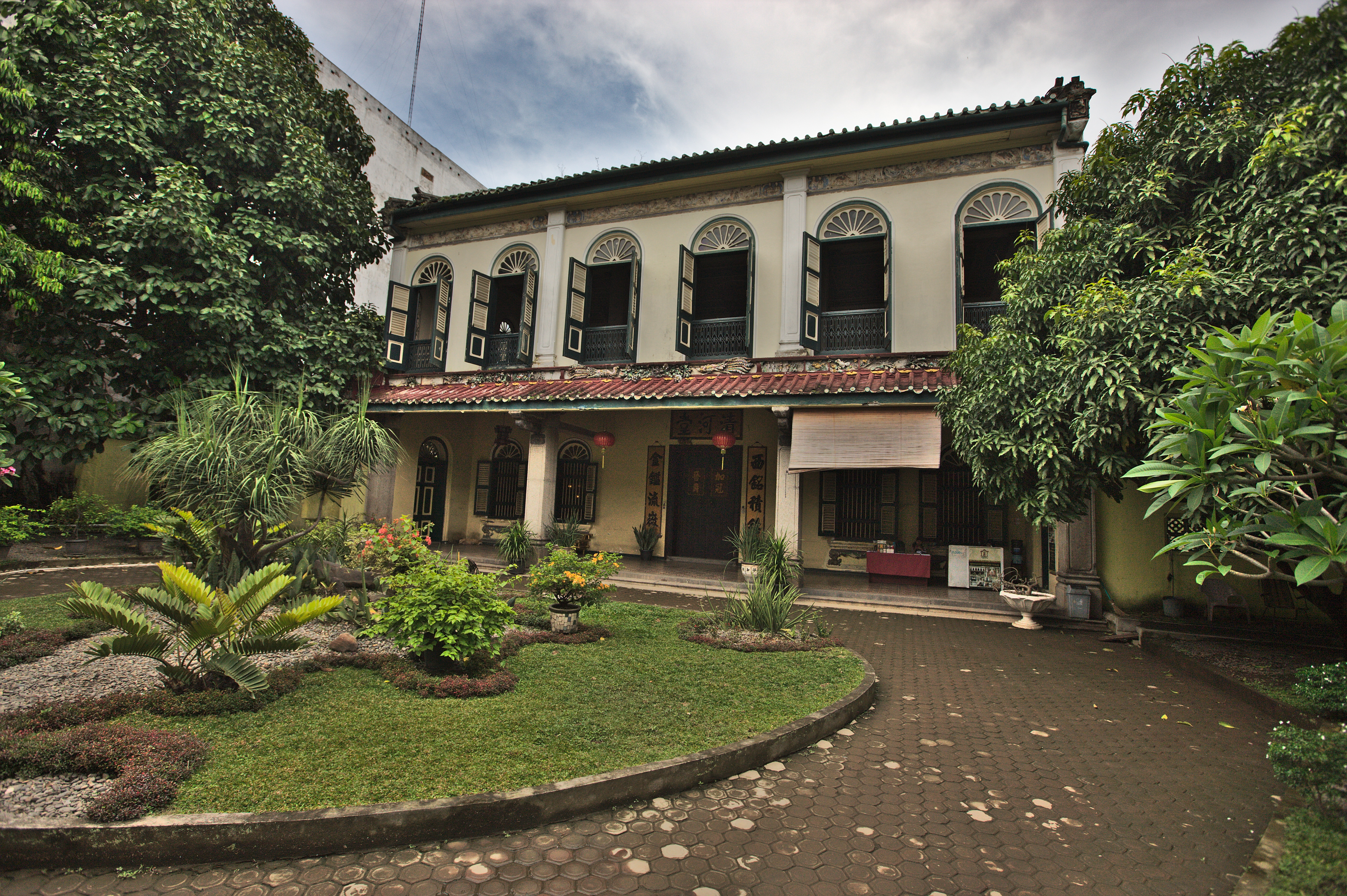 Tjong A Fie Mansion, Jalan A Yani, Medan, North Sumatra, Sumatra, Indonesia.